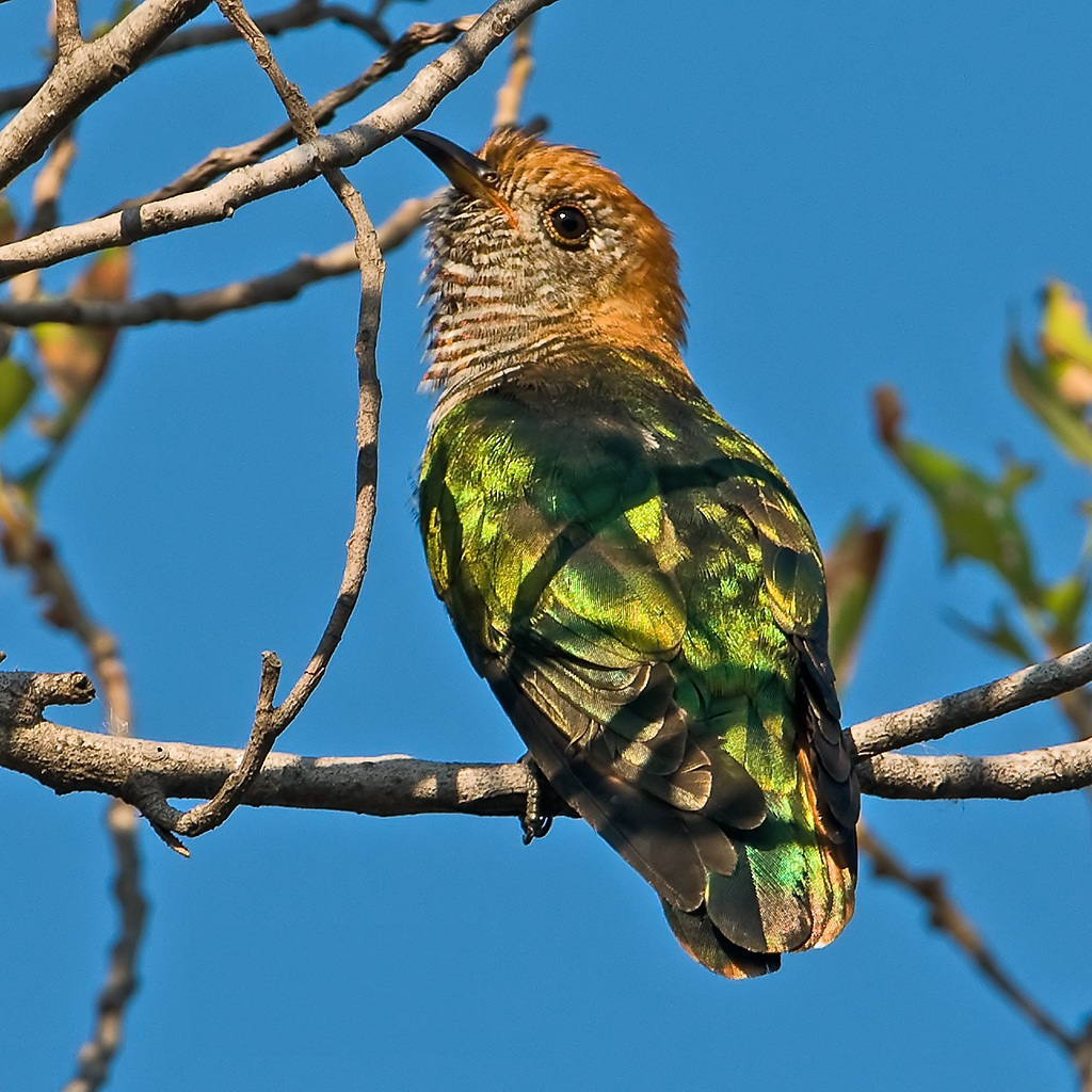 Female Asian Emerald Cuckoo (Chrysococcyx maculatus). Rama IX Park, Bangkok, Thailand. Female